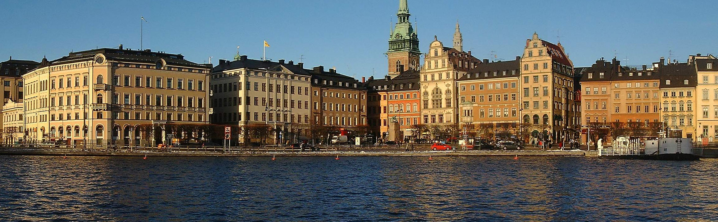 Kornhamnstorg in February 2007.